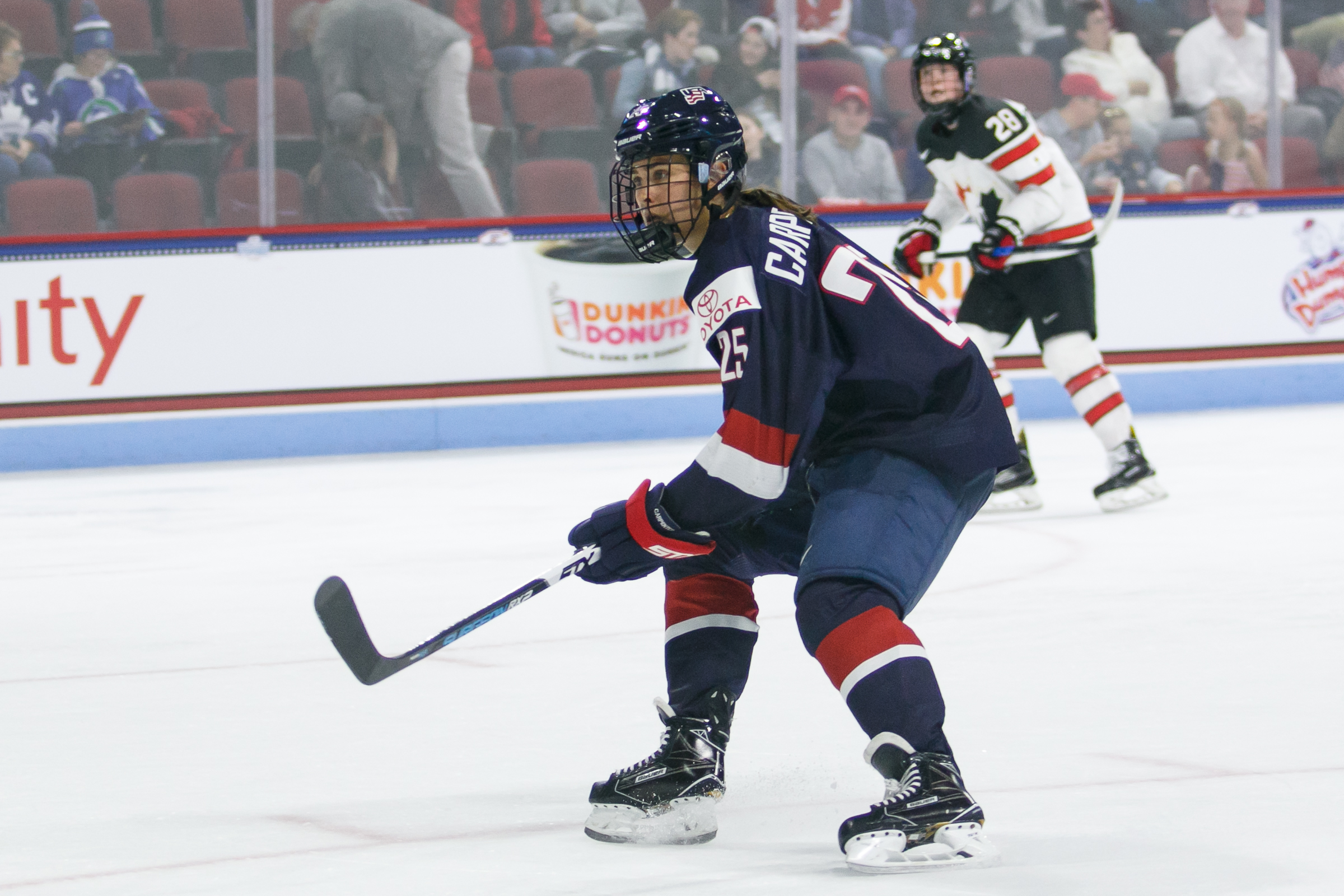 Alex Carpenter playing for Team USA in 2017